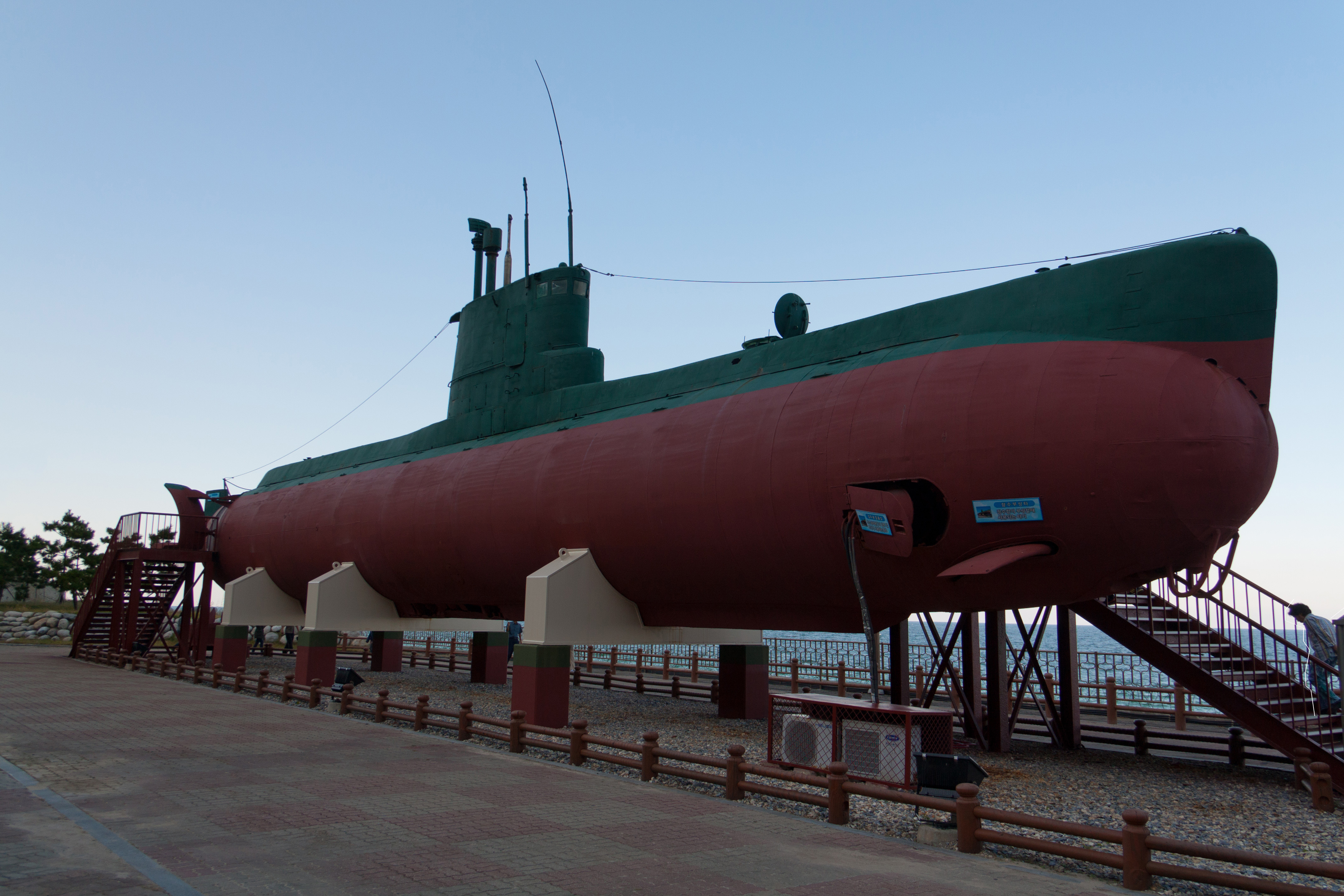 North Korean Sang-O submarine that ran aground in South Korean waters near Gangneung, in 1996